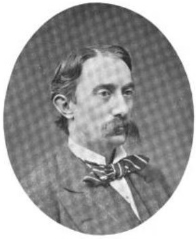 William Wirt Warren (Massachusetts Congressman)